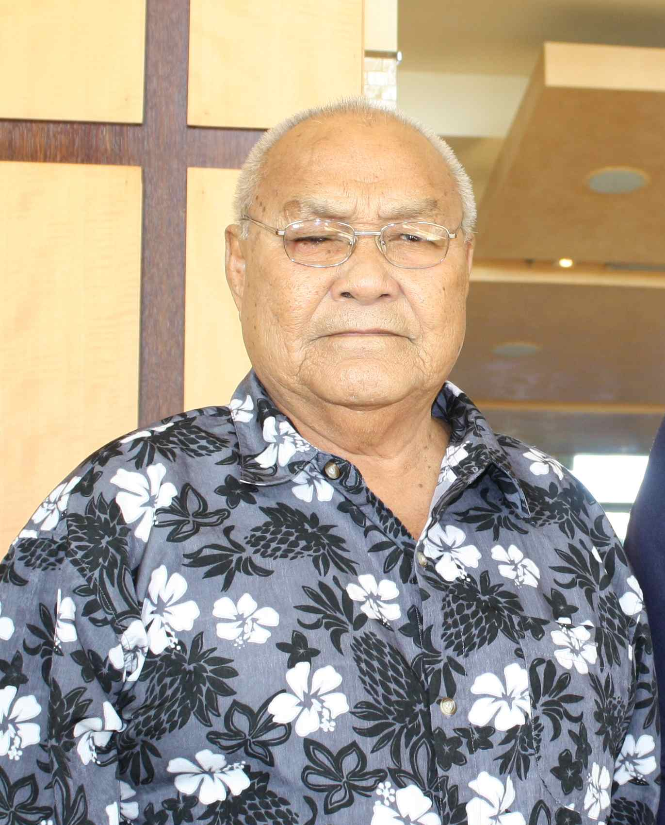 Rt Hon Sir Kamuta Latasi, former Governor-General and Prime Minister of Tuvalu at the Hyatt Regency in Trinidad for a Conference of Speakers of Parliament of the Commonwealth